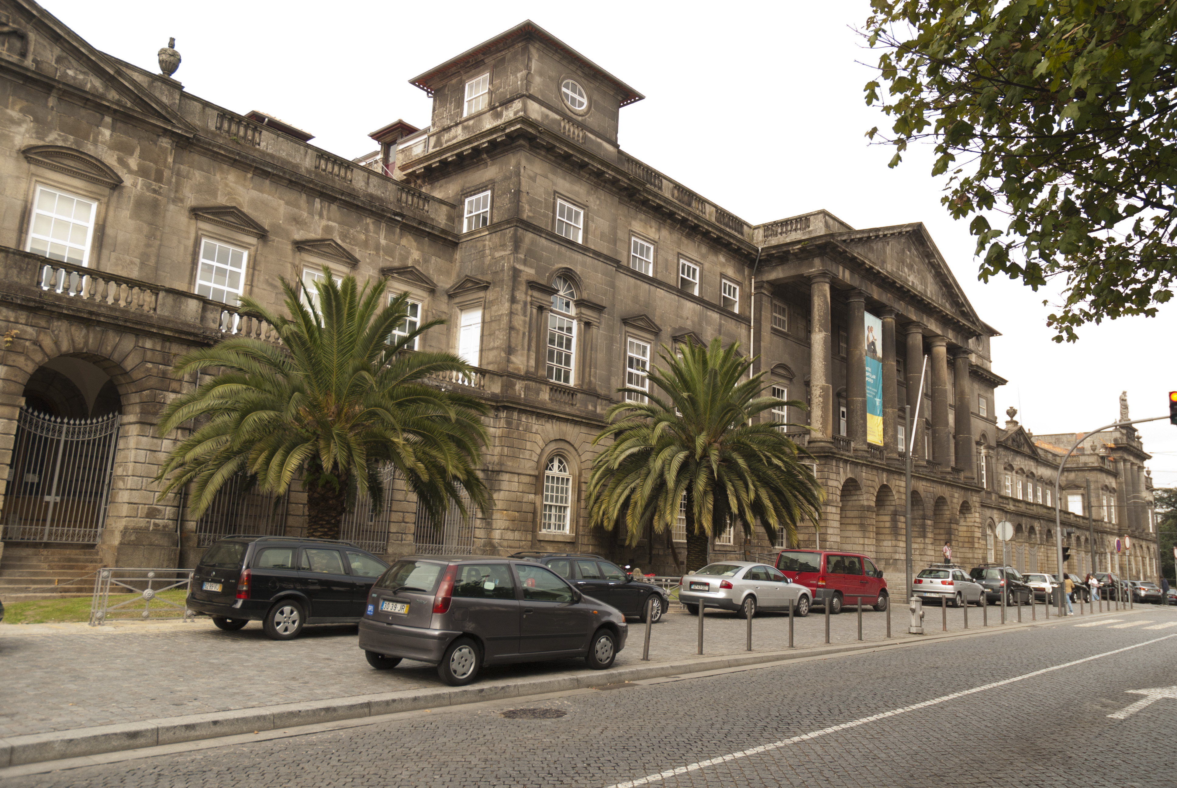 This file was uploaded for Wiki Loves Monuments in Portugal with the unique identifier 70197.